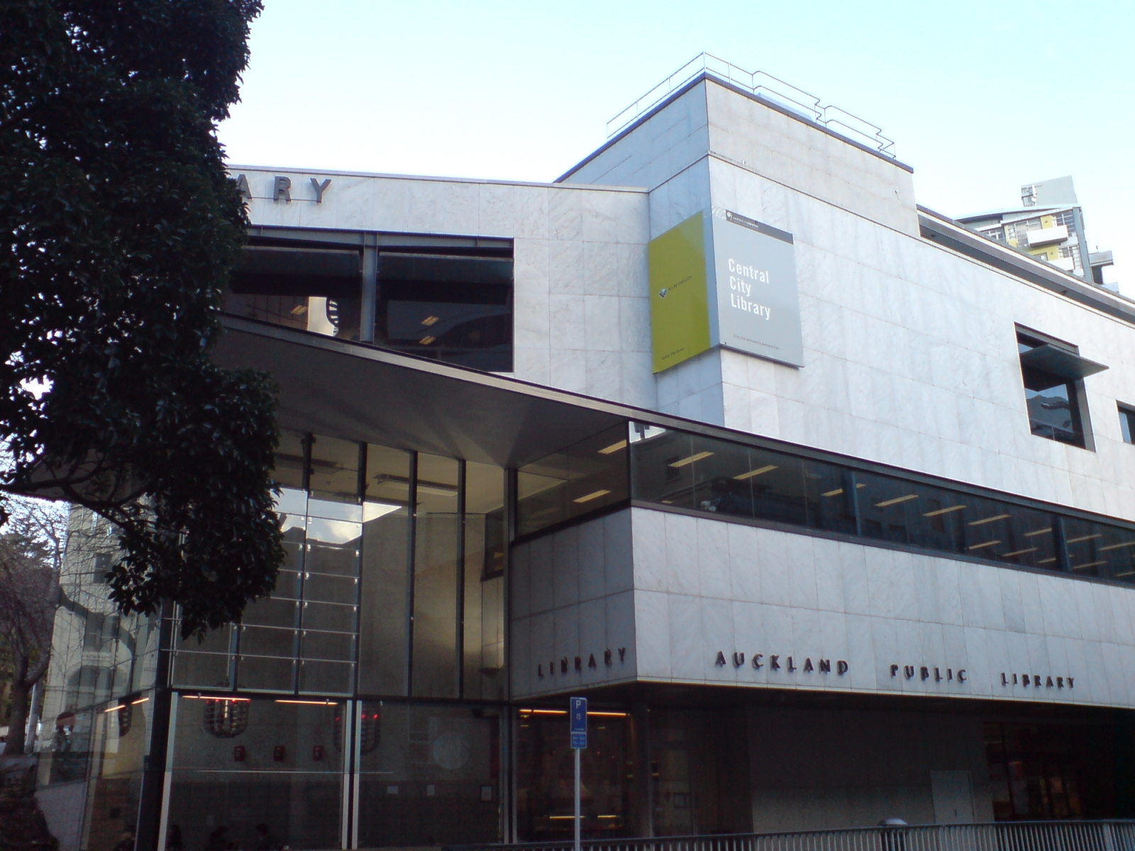 The Auckland Central Library Auckland City, New Zealand. Looking southeast from the Wellesley Street / Lorne Street intersection.